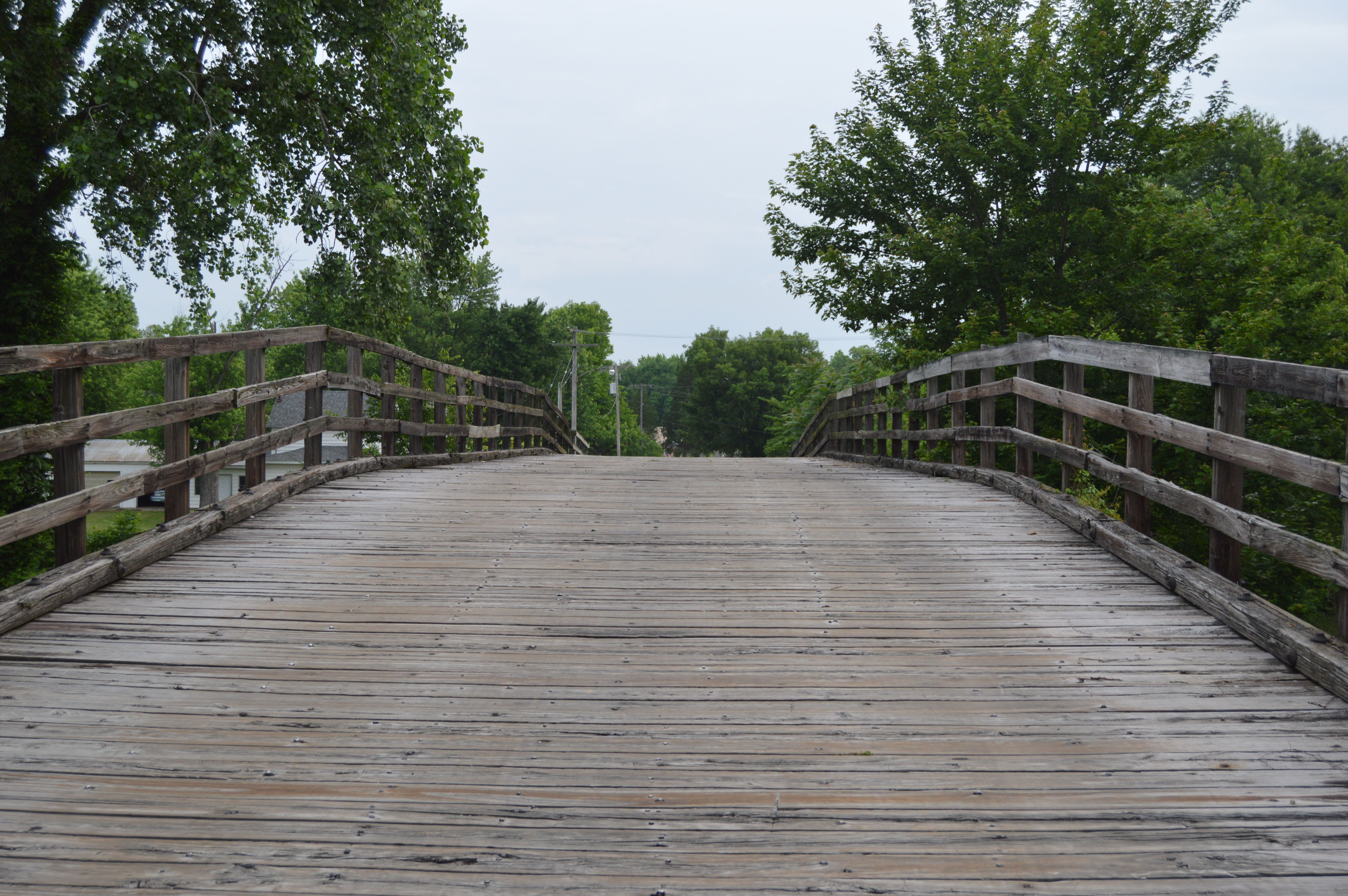 Southern portion of the Bridge at Thirteenth Street, which carries Thirteenth over a former railroad line in St. Francisville, Illinois, United States. Built in 1909, it is listed on the National Register of Historic Places.